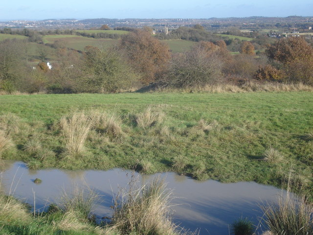 Pond at the Old Hills View north-west from the small pond on the common. The abbey at Callow End ahead and Worcester on the horizon to the left.